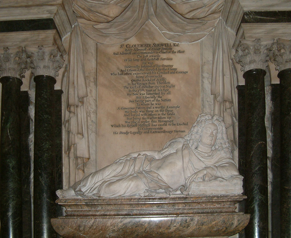 Memorial to Admiral Sir Cloudesley Shovell in South Quire of Westminster Abbey